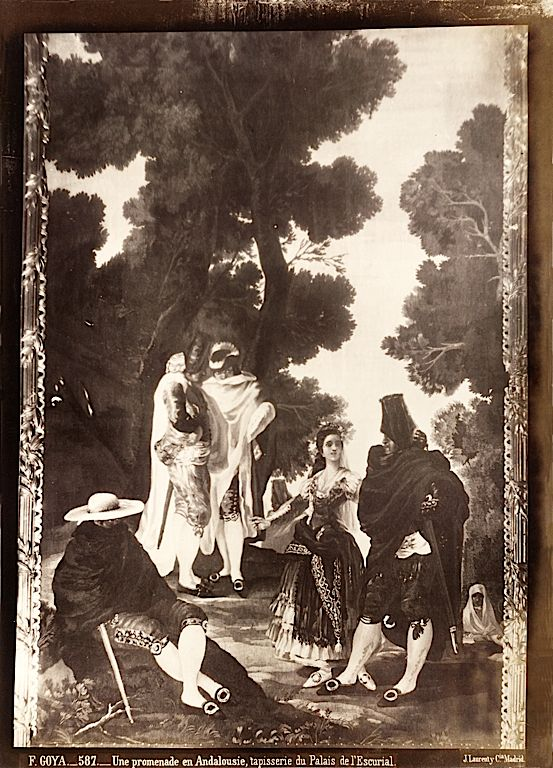 This tapestry is one from an early set (the Second Series) with typical and native themes commissioned by the future Charles IV for the dining room at El Pardo Palace in Madrid. It was woven at the Spanish royal tapestry factory of Santa Bárbara after the oil painting by Goya dated 1777 now in the Museo del Prado. The men appear dressed in the voluminous cloaks prohibited by an unpopular government decree that precipitated the Rebellion of Esquilache in 1766. These traditional cloaks were banned because of the anonymity they afforded and the easy concealment of firearms they provided. The mass riots in Madrid brought down the government of the Marquis of Esquilache, the chief minister of Charles III.